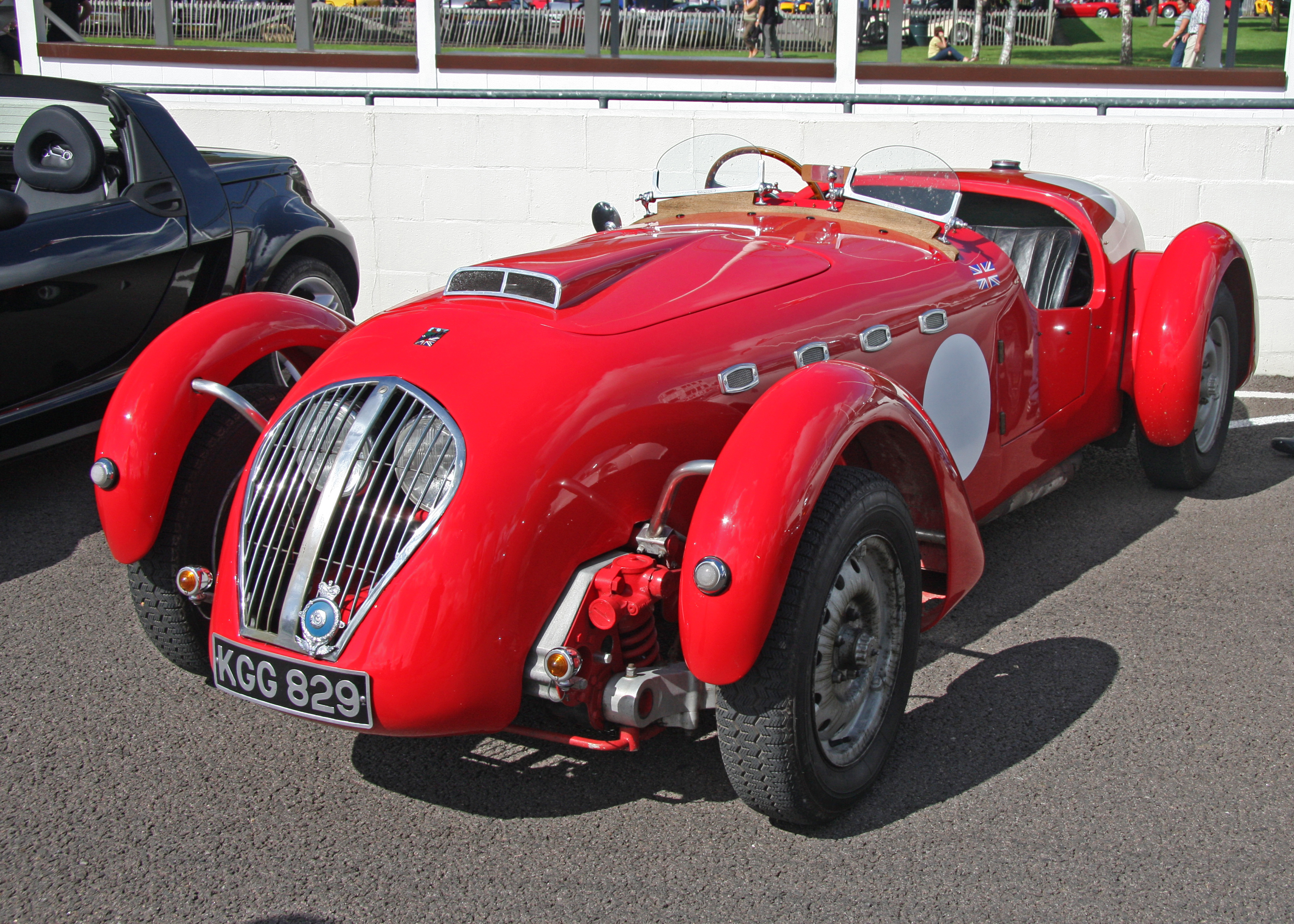 Healey Silverstone (DVLA) first registered 4 May 1950, 2443cc